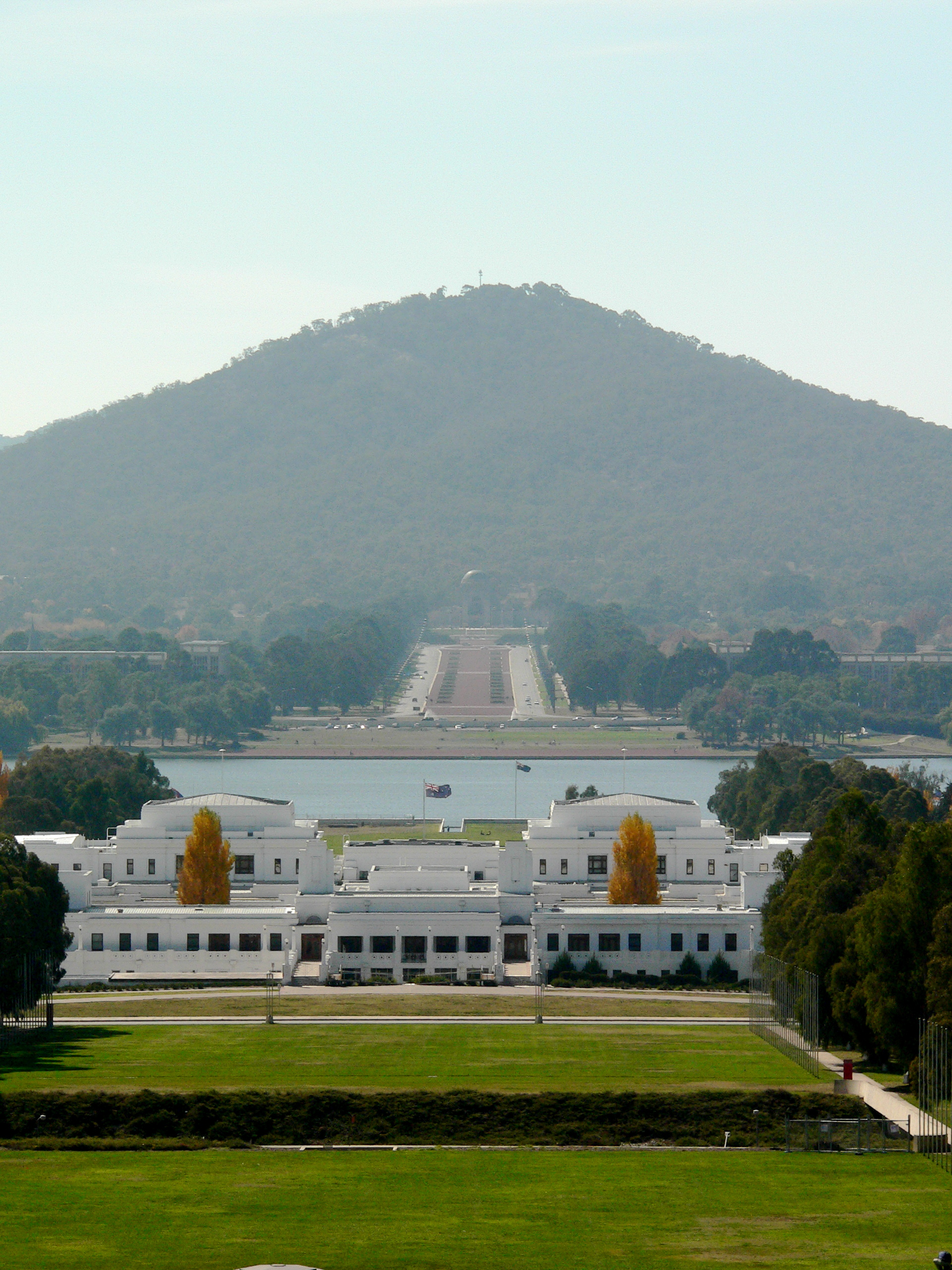 Canberra viewed from on top of Parliament House.